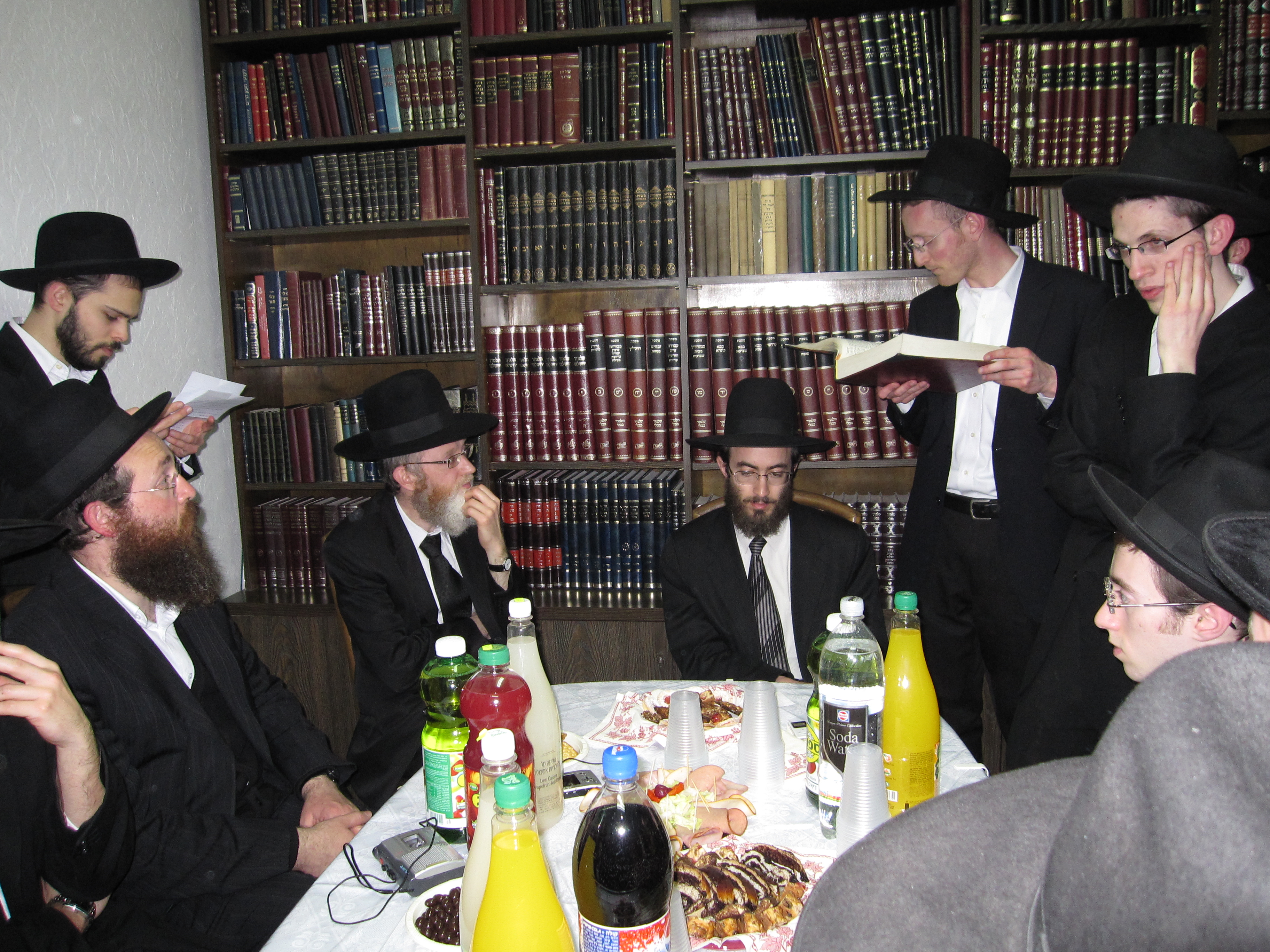 Rabbi Chaim Aryeh Pam seated at the head of the table, to his right is Rabbi Asher Arielli